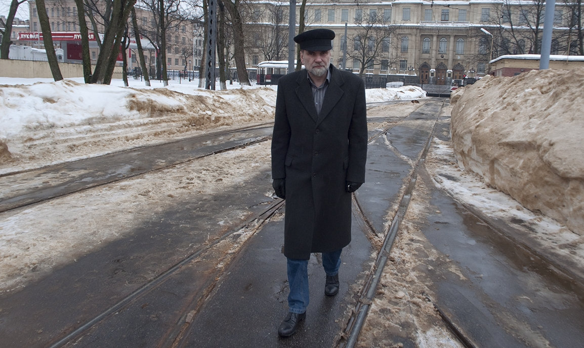 Producer Sergey Selyanov on the set of "Cochegar (Fireman)" movie.